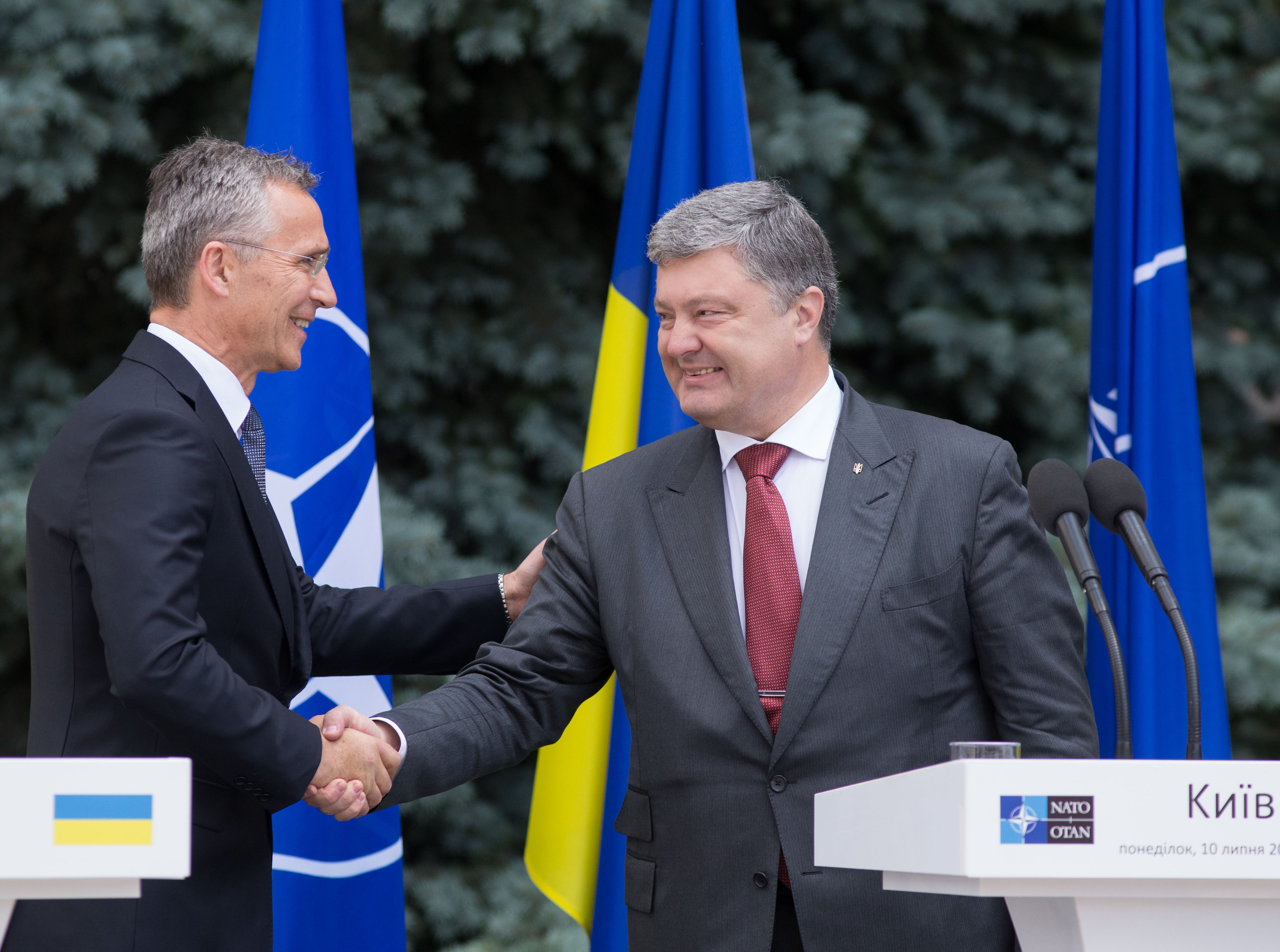 Ukraine – NATO Commission chaired by Petro Poroshenko